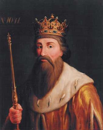 Casimir I the Restorer.